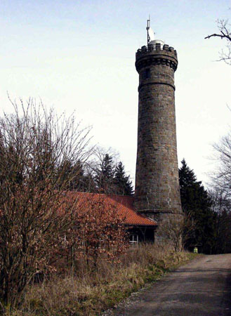 The Süntel Tower on the Süntel hills, Lower Saxony, Germany